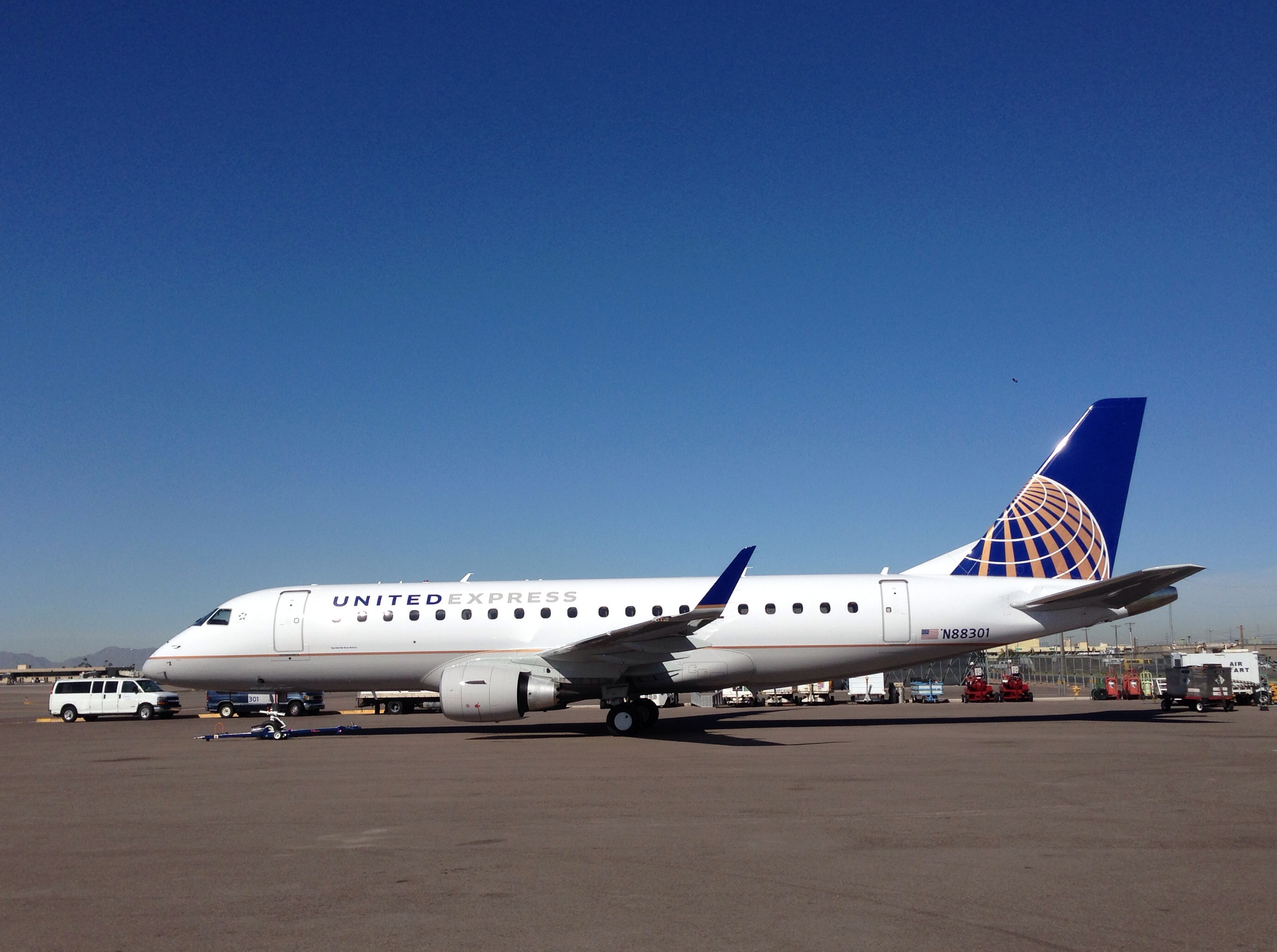 United Airlines first owned Embraer 175 (N88301) operated by Mesa Airlines. Delivered by Embraer on 2 April. Parked on the Mesa maintenance ramp at Phoenix Sky Harbor airport.